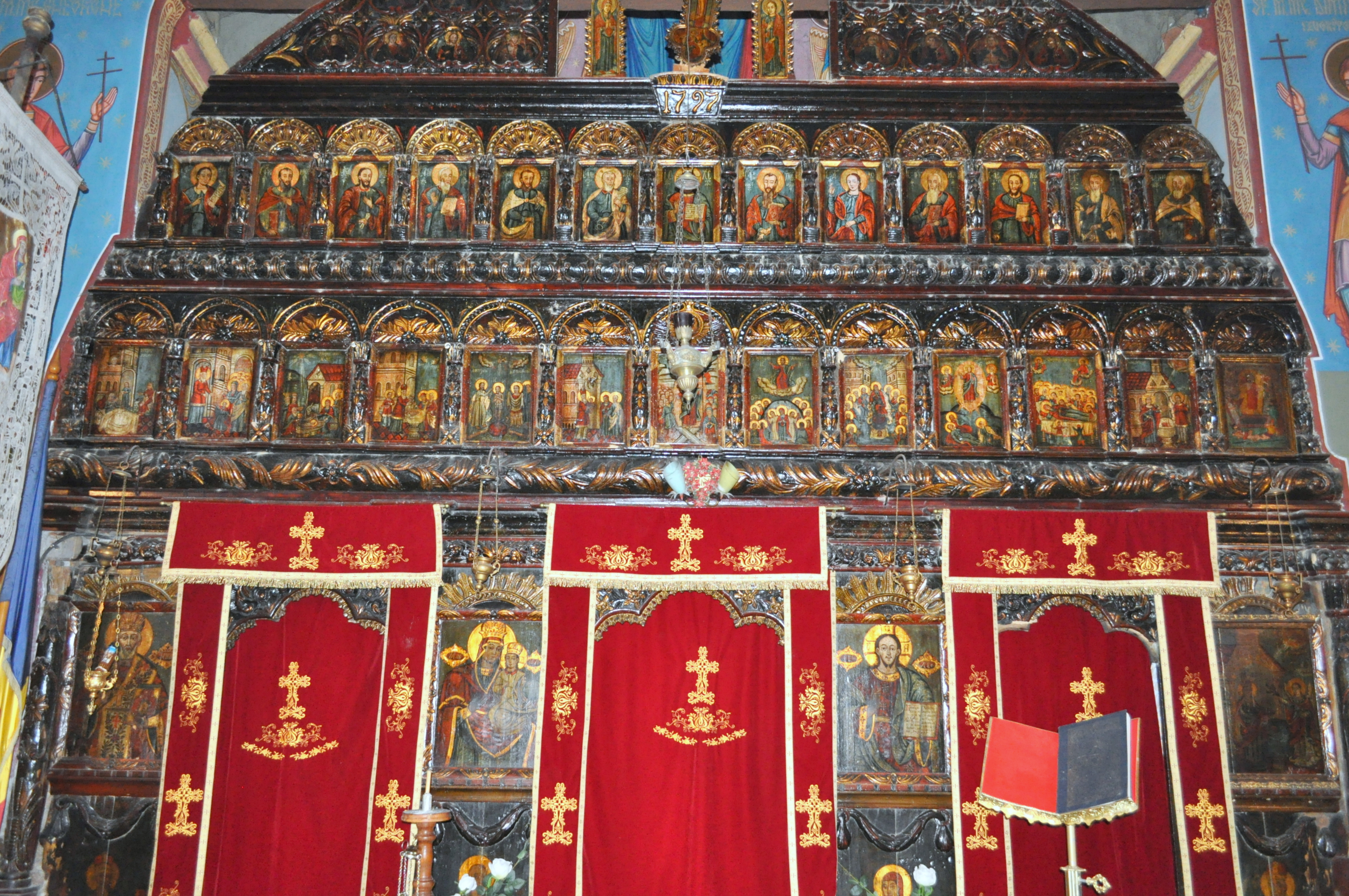 Church of the Annunciation in Băița, Hunedoara county, Romania